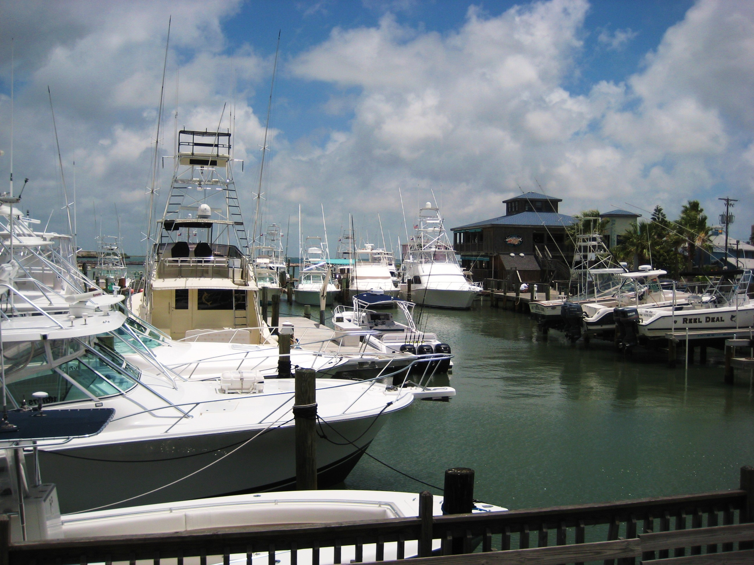 Boat dock at Port Aransas, Texas.